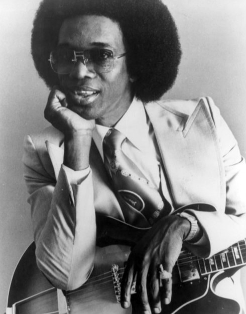 Publicity photo of Johnny "Guitar" Watson.